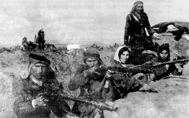 1936–1939 Arab revolt in Palestine against the British